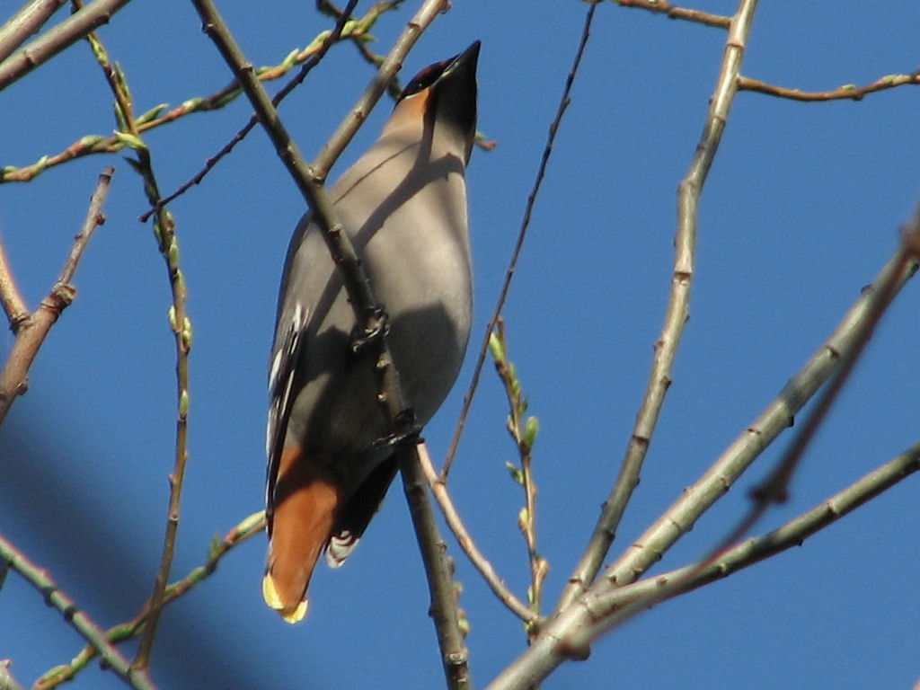 Male Bohemian Waxwing (Bombycilla garrulus) Ottawa, Ontario